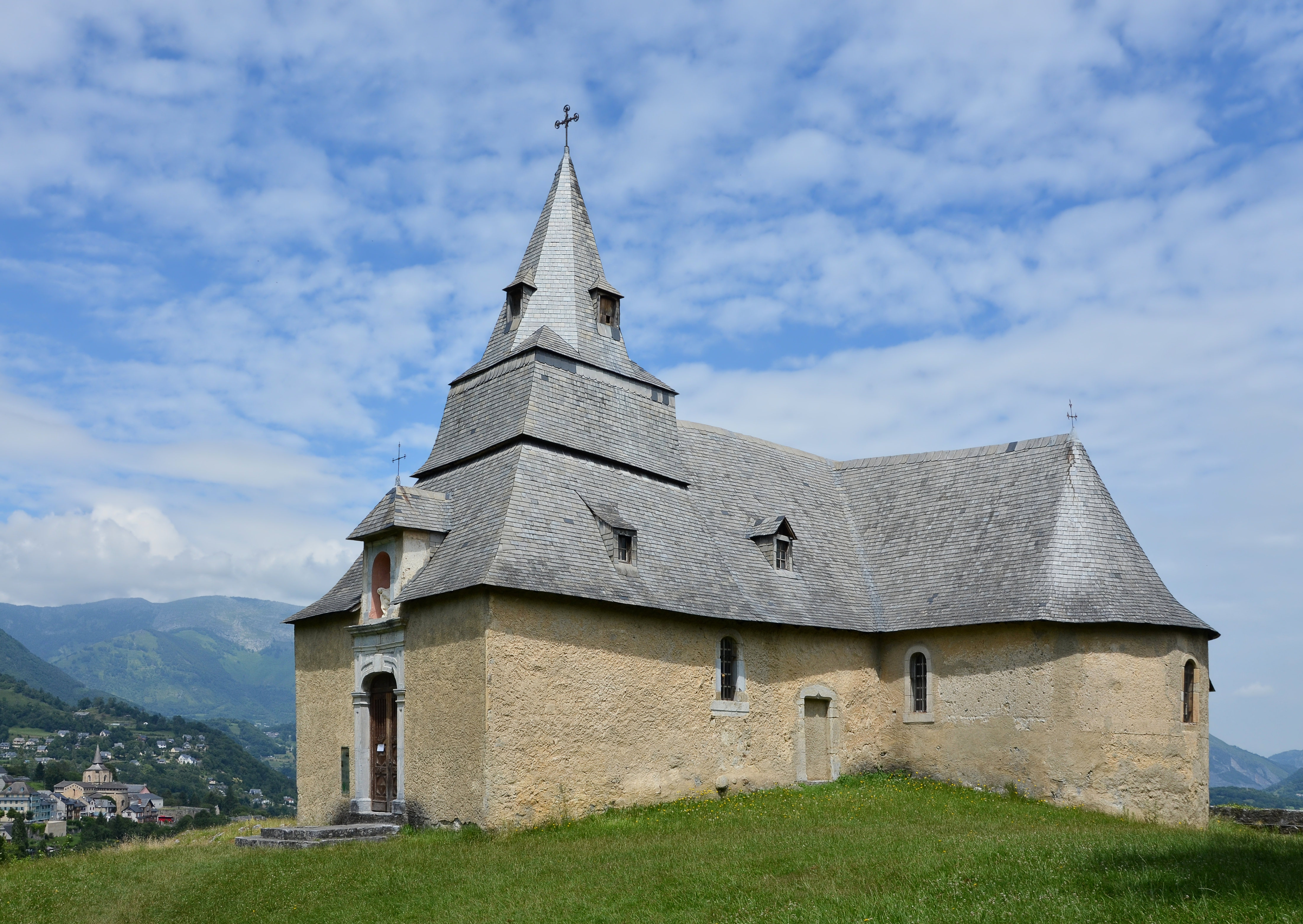 South view of Our Lady of Piéta chapel (16th century), Saint-Savin, Hautes-Pyrénées, France.